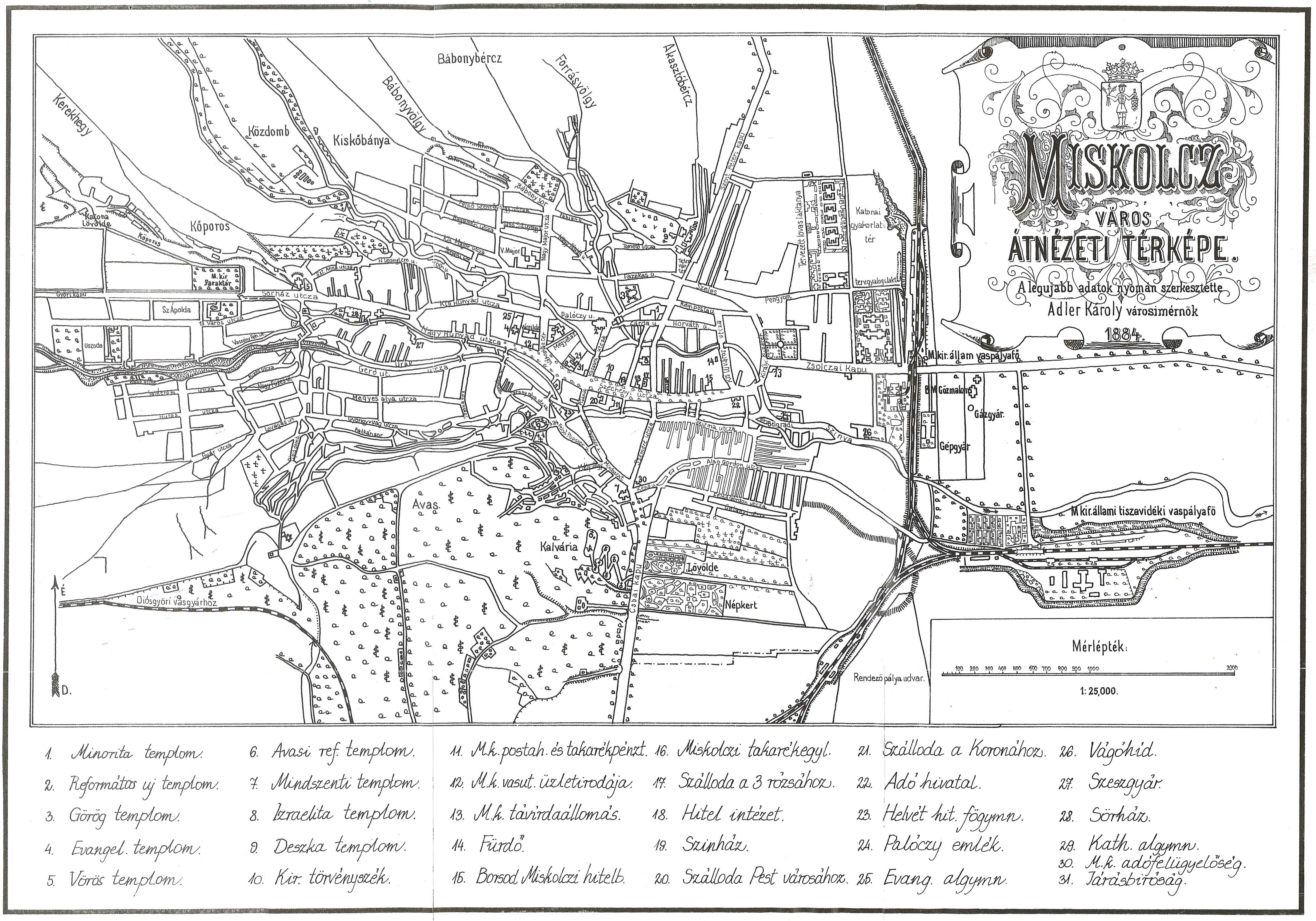 Map of Miskolc in 1884 by Károly Adler (1849–1905)